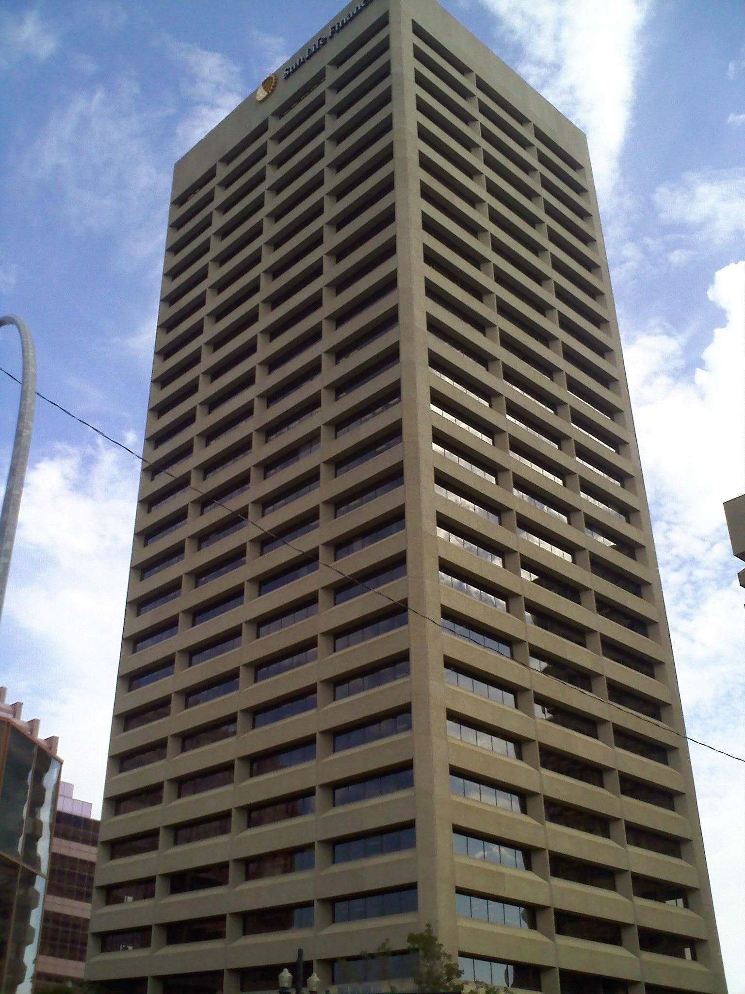 Northwest side of Sunlife Place, Edmonton, from 99 Street.